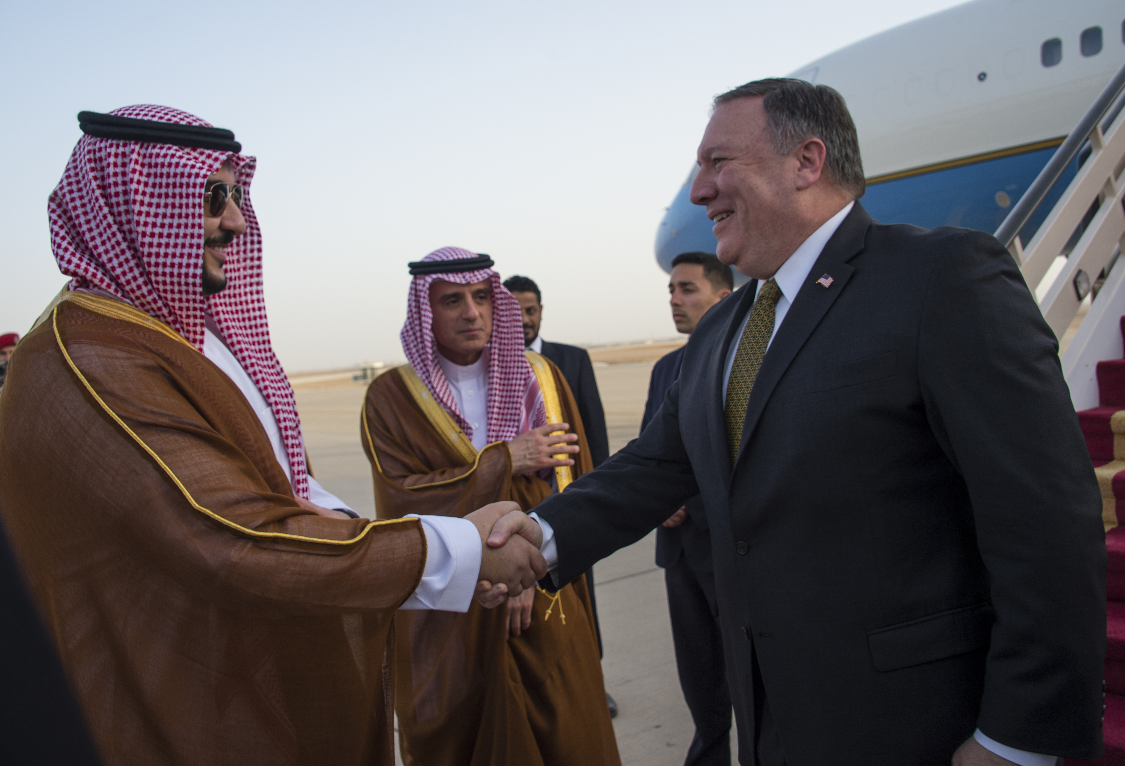 U.S. Secretary of State Mike Pompeo greets Saudi Ambassador to the Uited States Khalid bin Salman upon arrival in Riyadh, Saudi Arabia, on April 28, 2018. (State Department photo/ Public Domain)